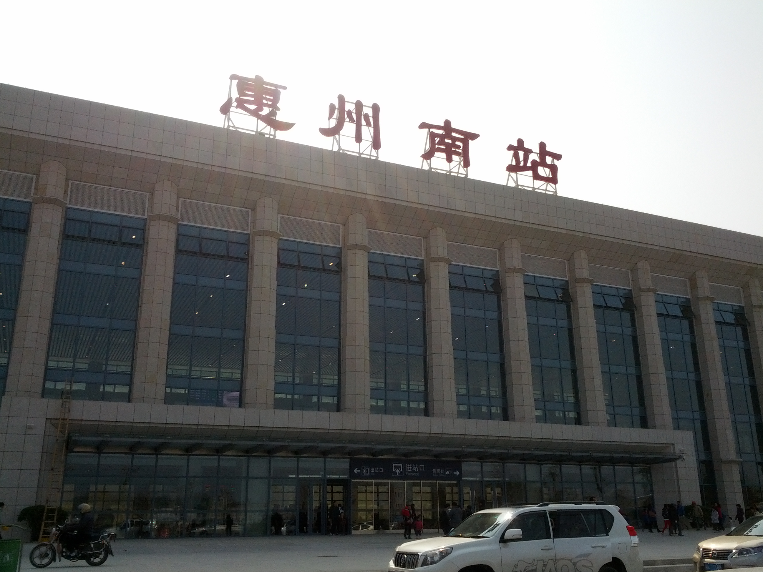 Station building of Huizhounan Railway Station中文（中国大陆）: 惠州南站站房